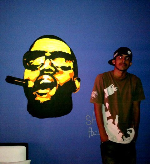 Sanki standing next to one of his paintings in a Cafe in Zamzama, Karachi.